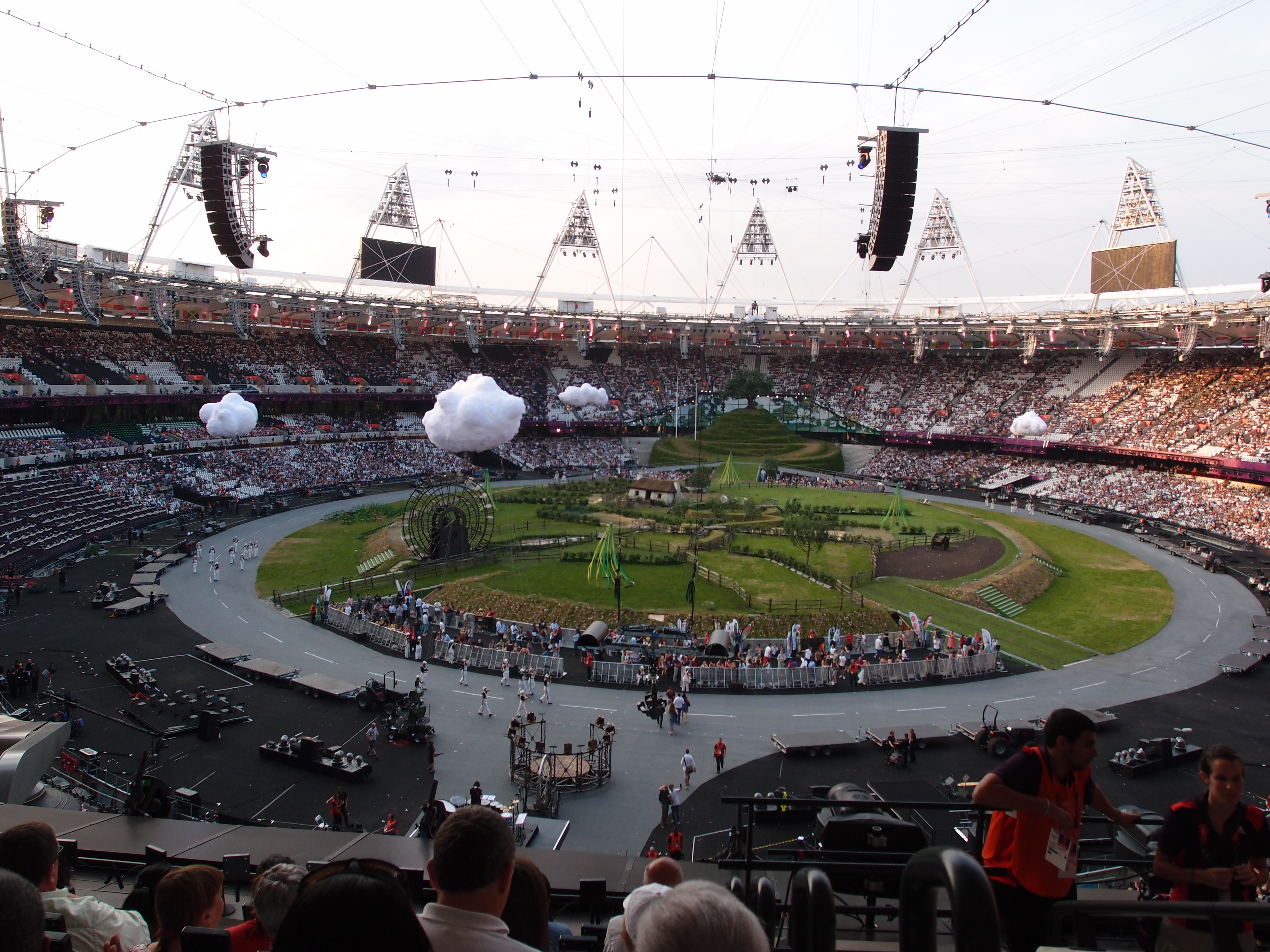 2012 Summer Olympics opening ceremony